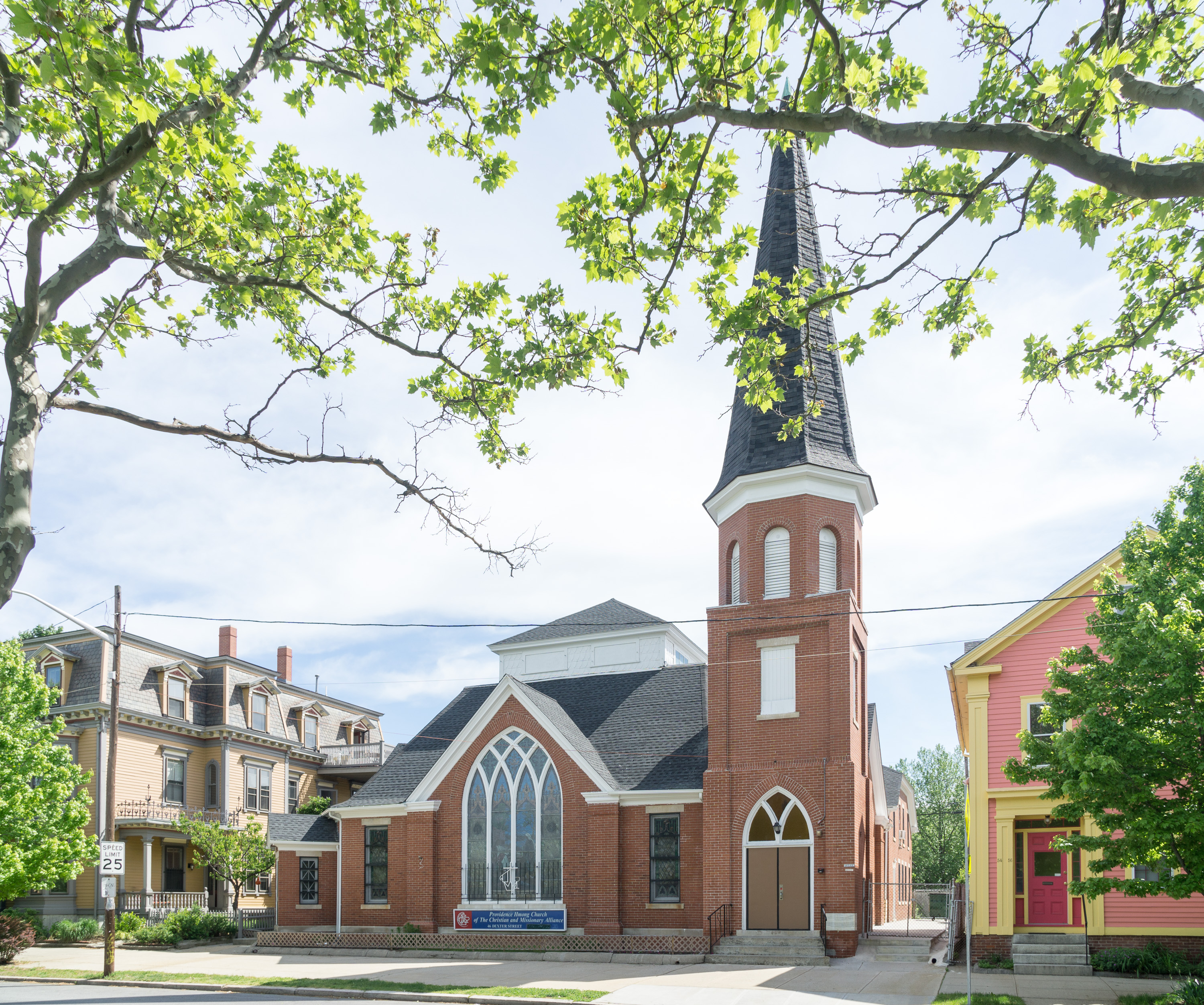 Providence Hmong Church of the Christian and Missionary Alliance. Dexter St, across from Dexter Training Ground.